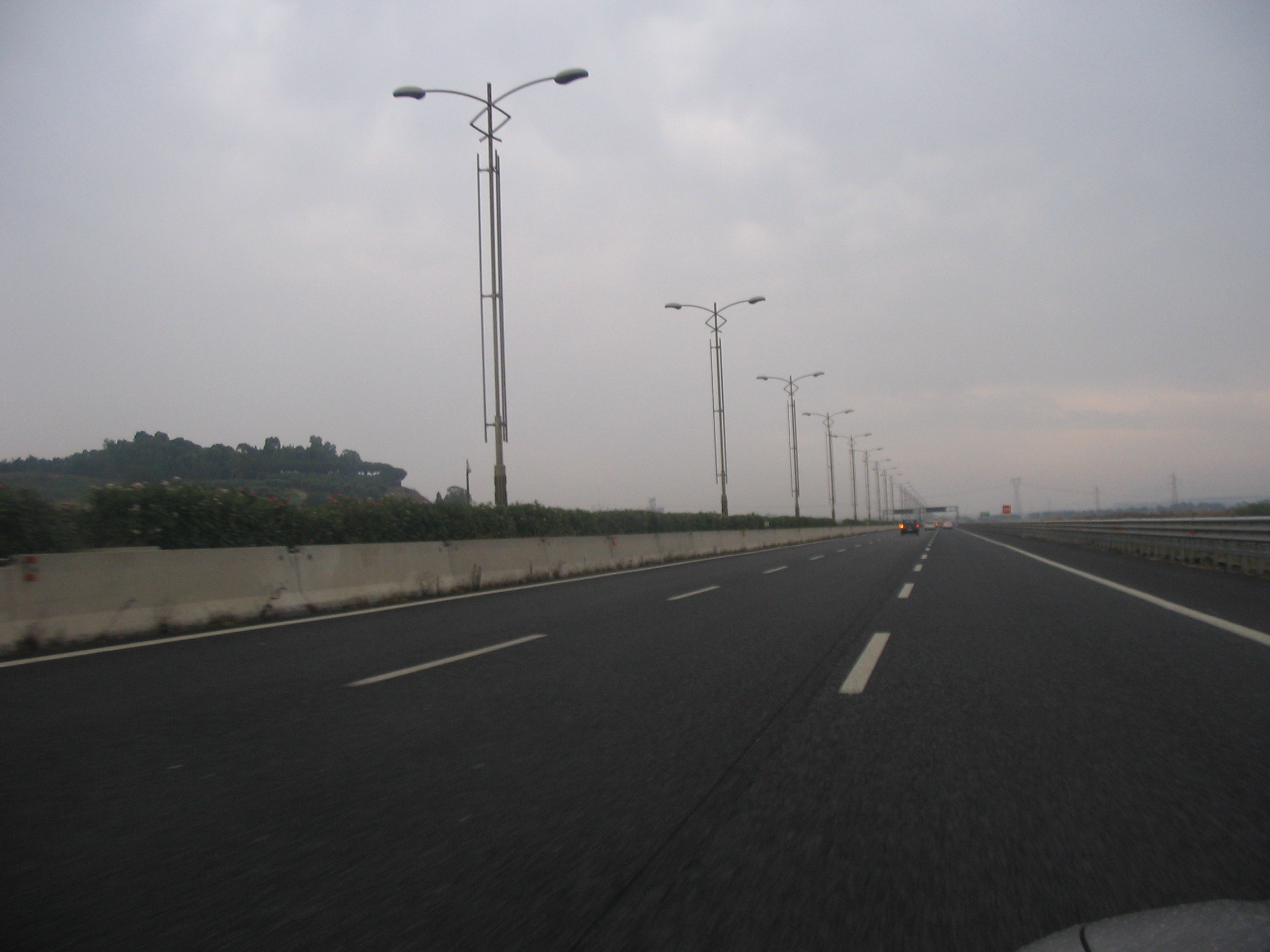 Highway A91-Roma Fiumicino